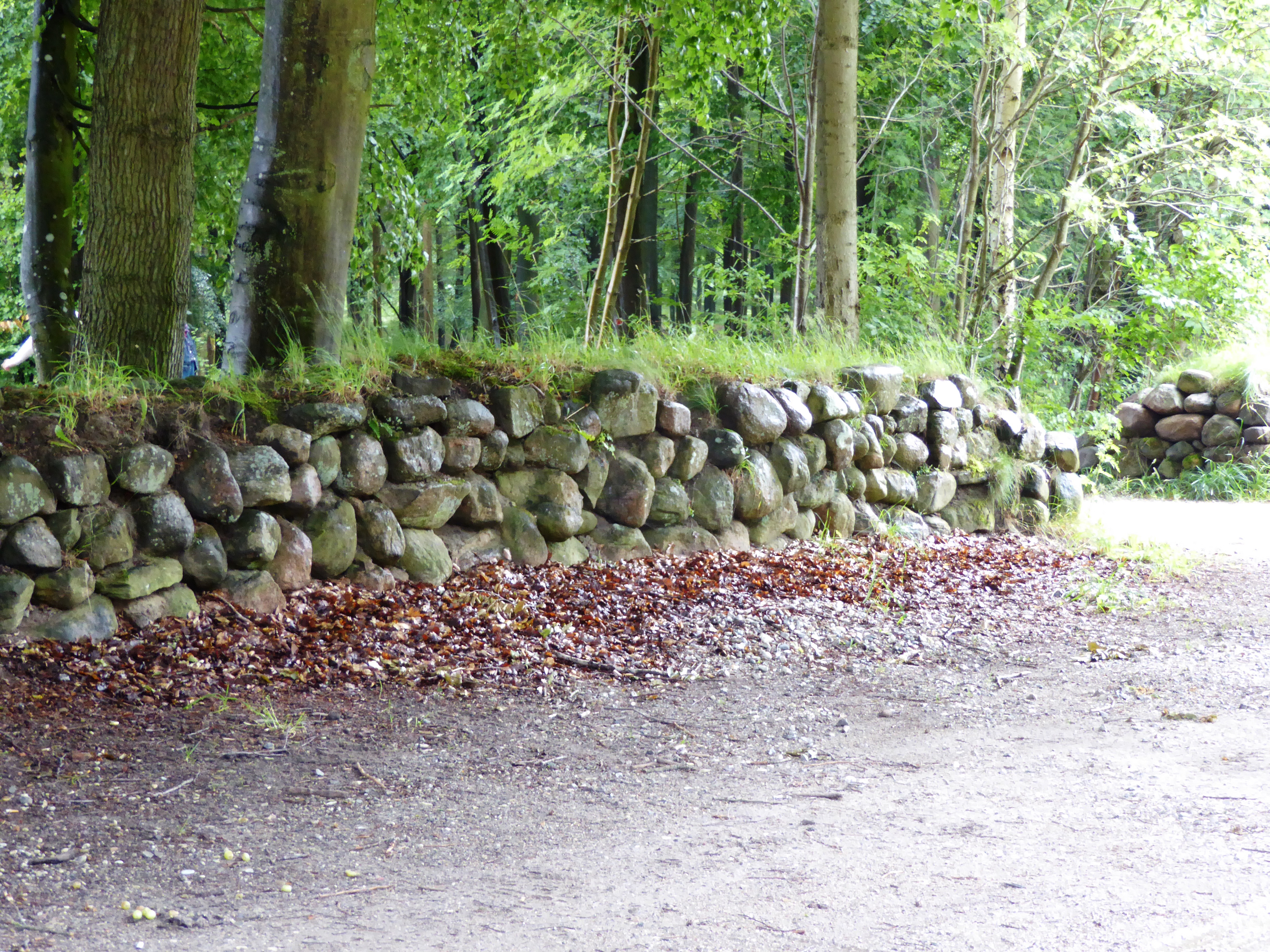 Store Dyrehave's stone wall on Overdrevsvej in Hillerød, Denmark